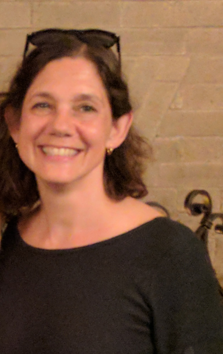 Photo of Marina Picciotto at the Nahum Lecture Dinner at Yale University in April 2017